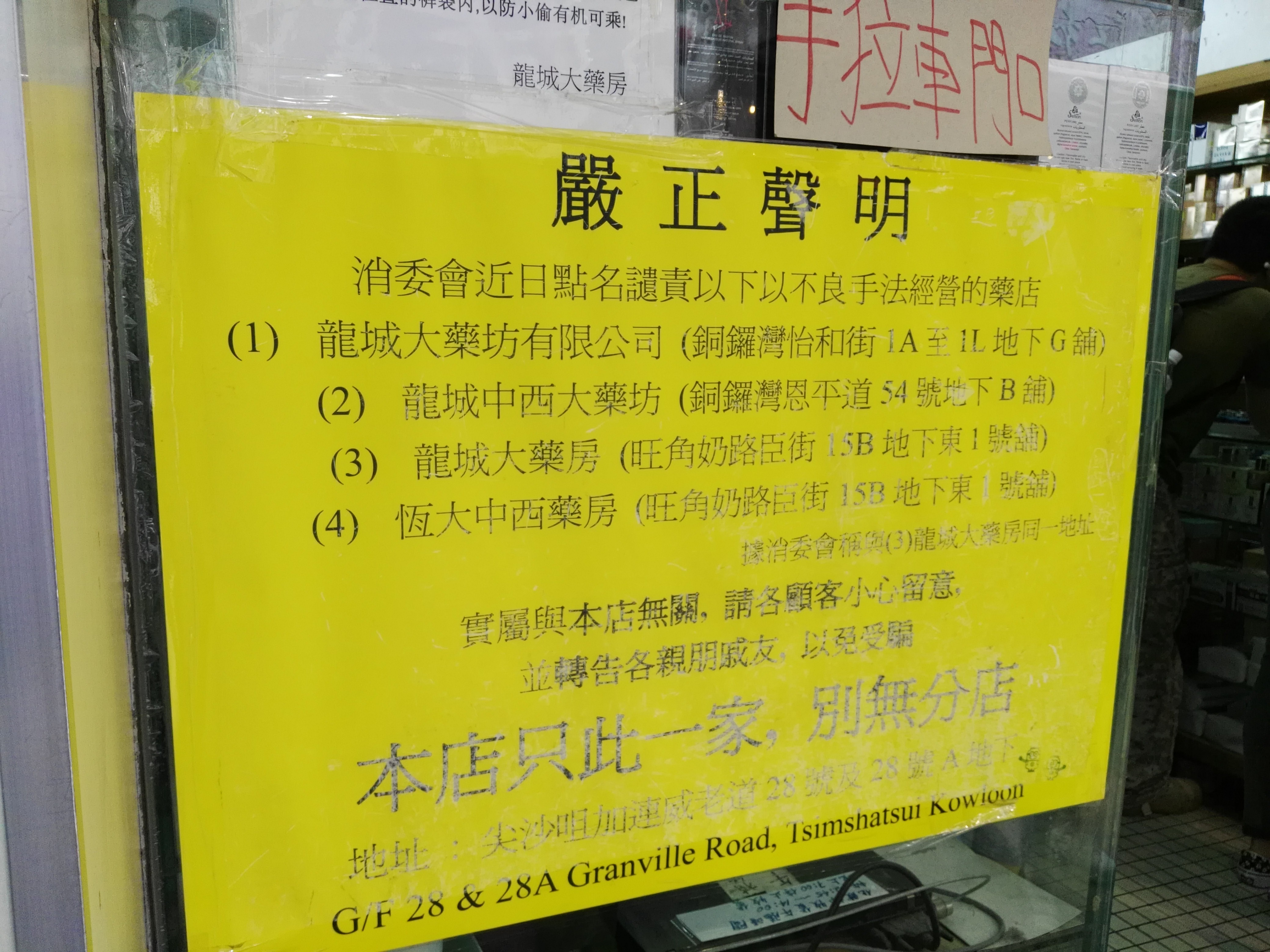 Notice at Lung Shing Pharmacy